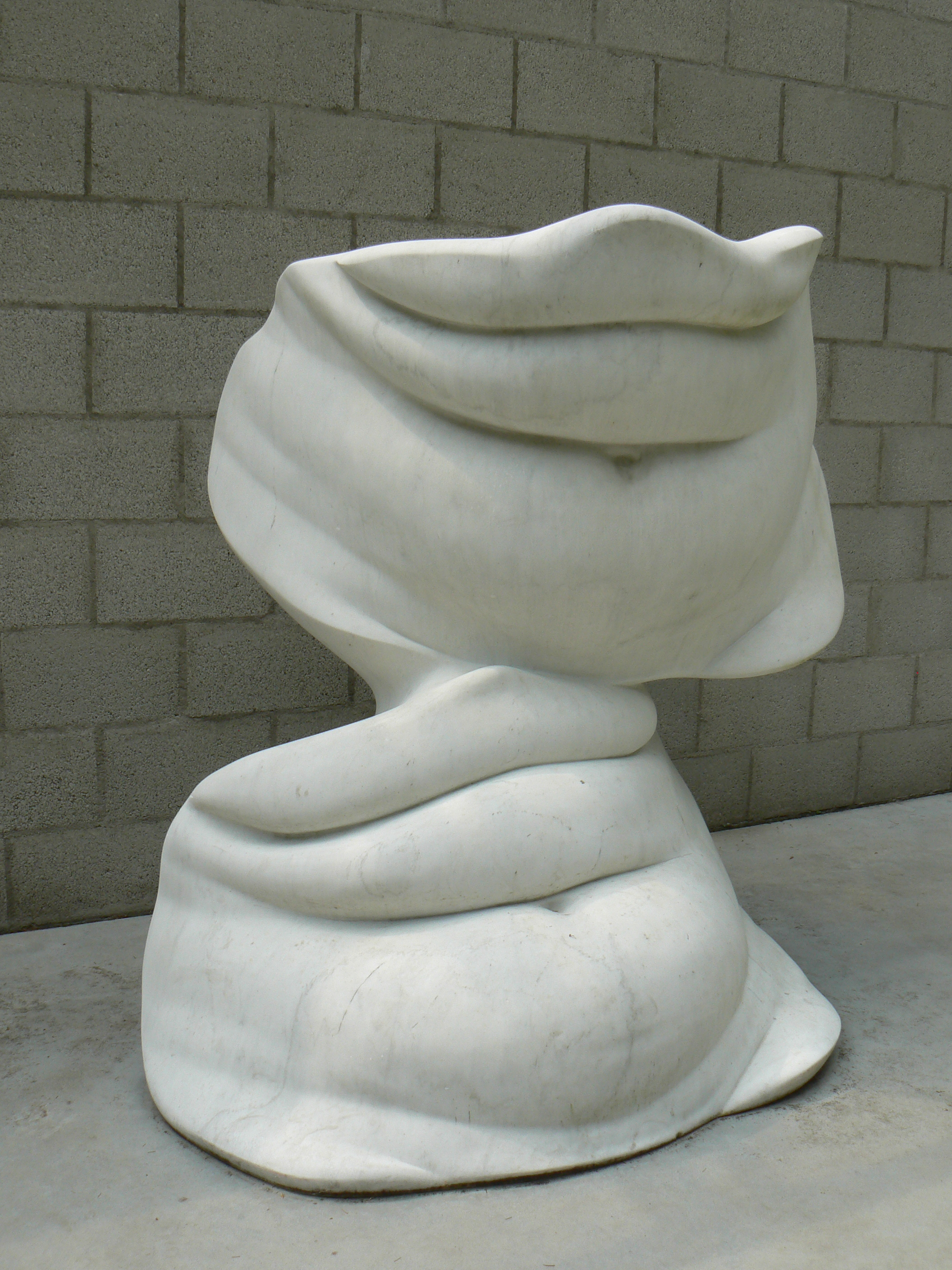 sculpture Bellies (1968) by Alina Szapocznikow in sculpturepark KMM/The Netherlands